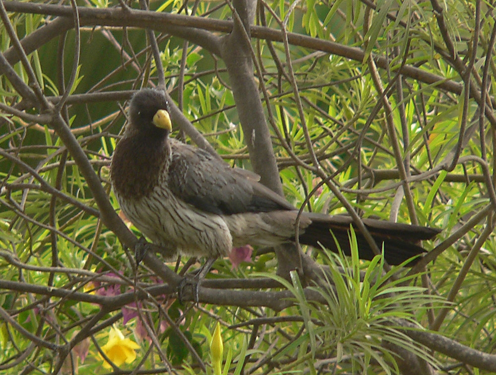 Western grey plantain-eater photographed in Dakar, Senegal